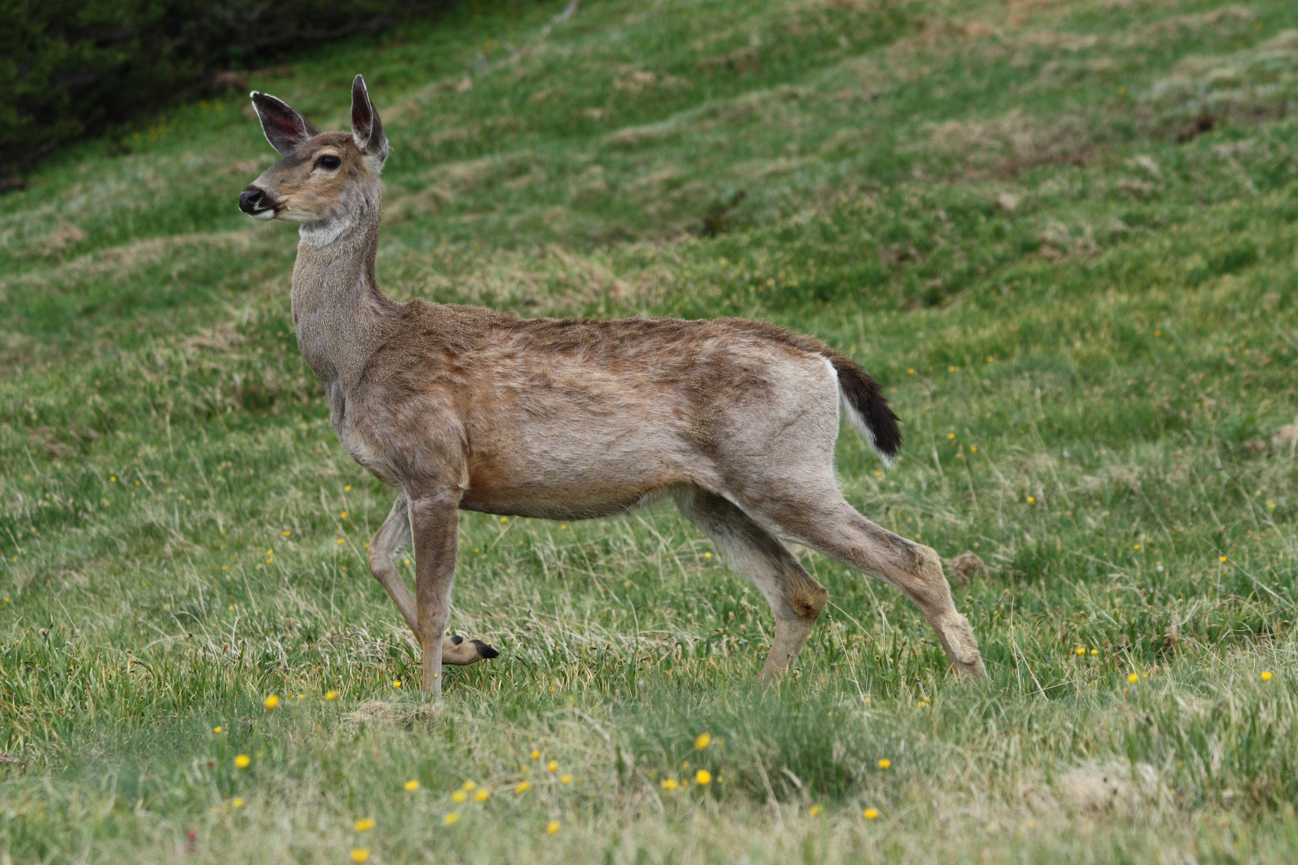 Columbian Black-tailed Deer, Coast Deer female